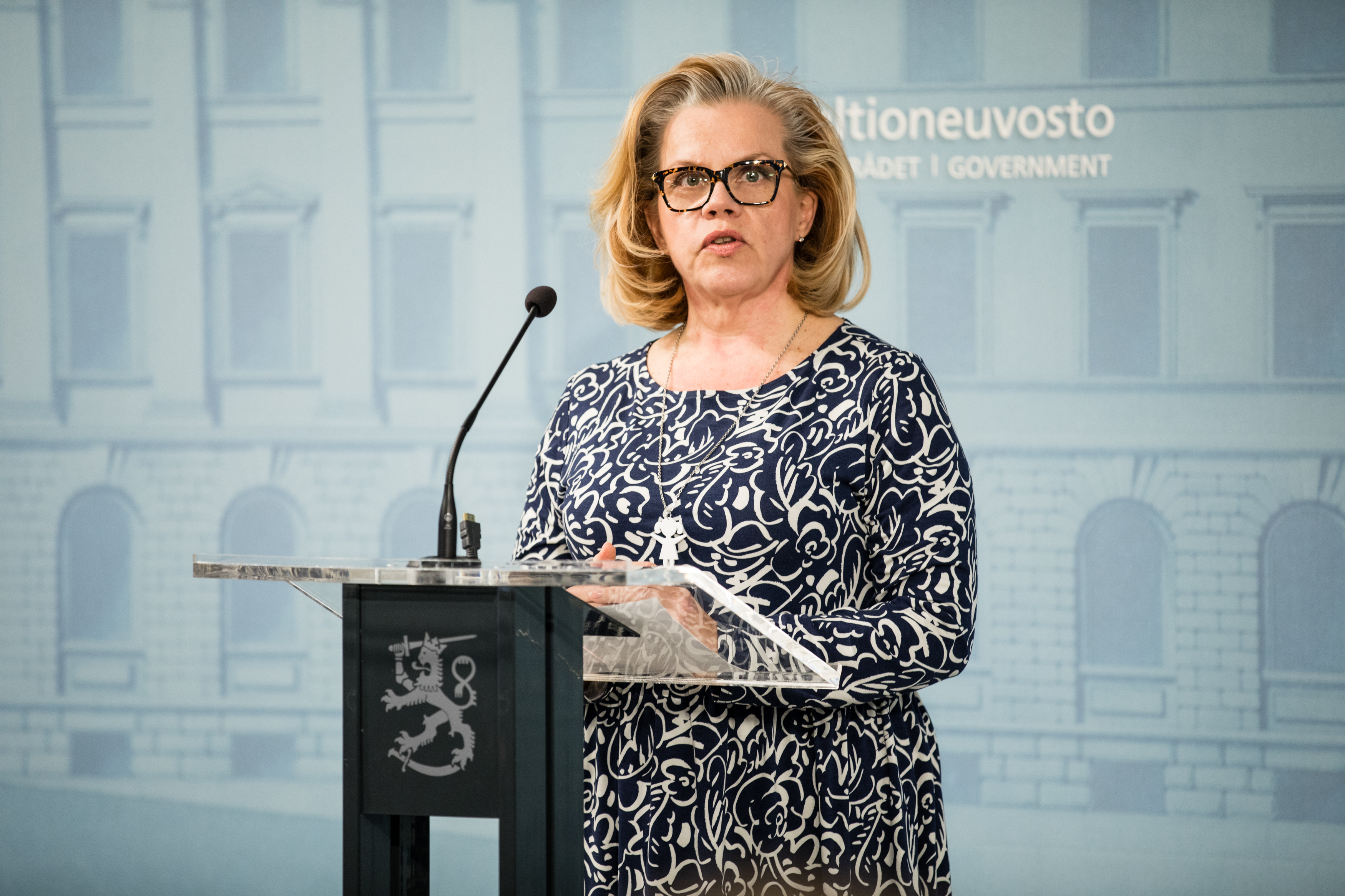 Valtioneuvoston Suomi toimii -kampanjan tiedotustilaisuus 17.4.2020